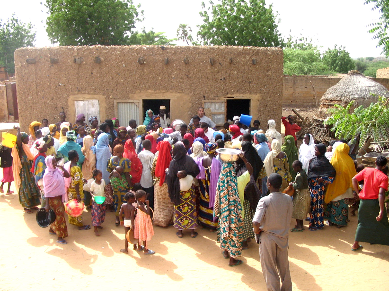 Soccer balls and rice gain big smiles Villagers from Karadje, Niger, gather around members from the 787th Air Expeditionary Squadron in July as the Airmen pass out 1,000 pounds of rice they bought with their own money. The 14-person team is deployed to Niger in support of Eagle Vision, a satellite imagery mapping mission.